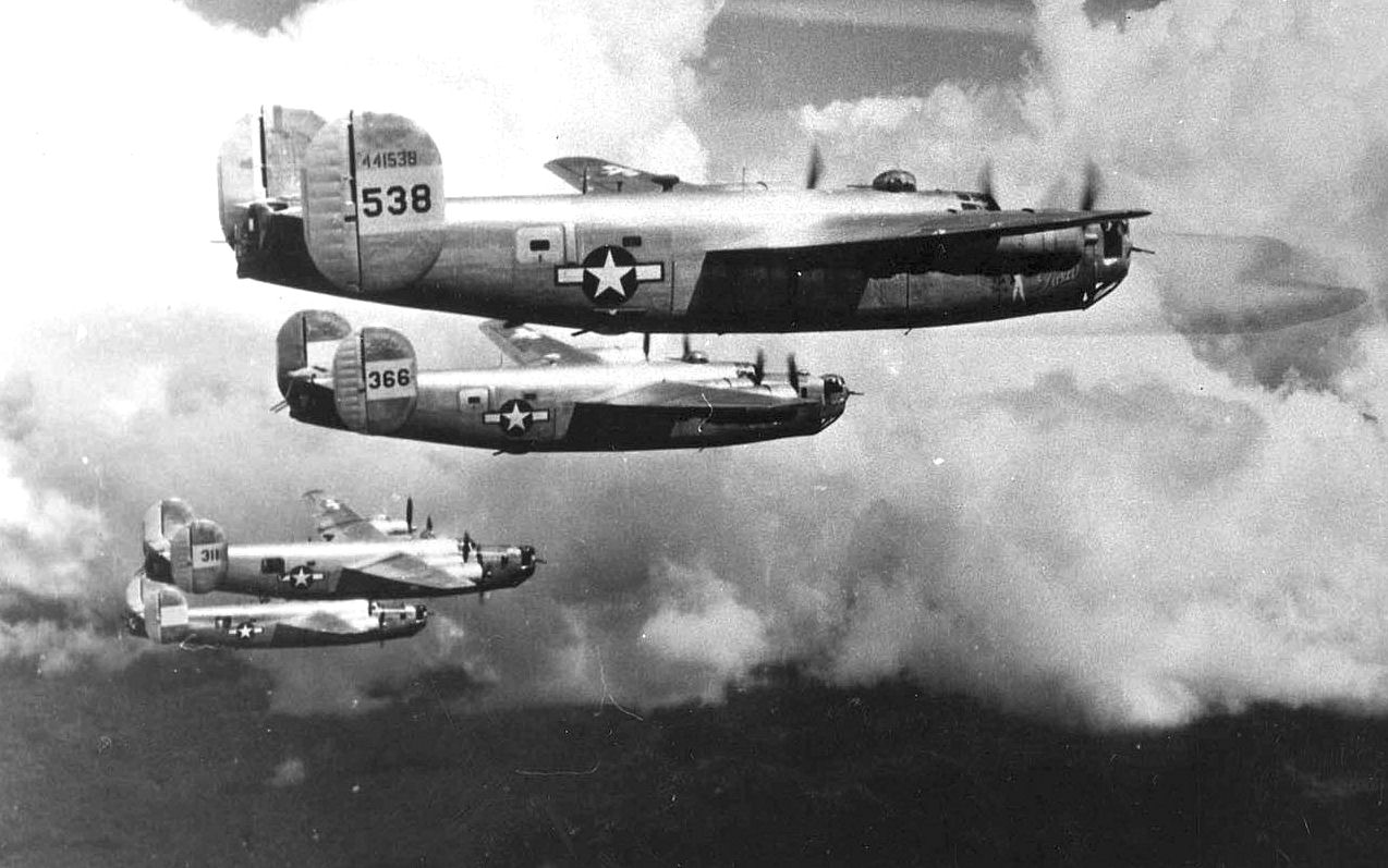 Nearest aircraft is Consolidated B-24L-5-CO (S/N 44-41538) of the 33rd Bomb Squadron, 22nd Bomb Group. (U.S. Air Force photo) Aircraft #538 was named "Round Trip Ticket" and aircraft #366 B-24J S/N 44-40366 was named "Gypsy" and later renamed "Slightly Dangerous".